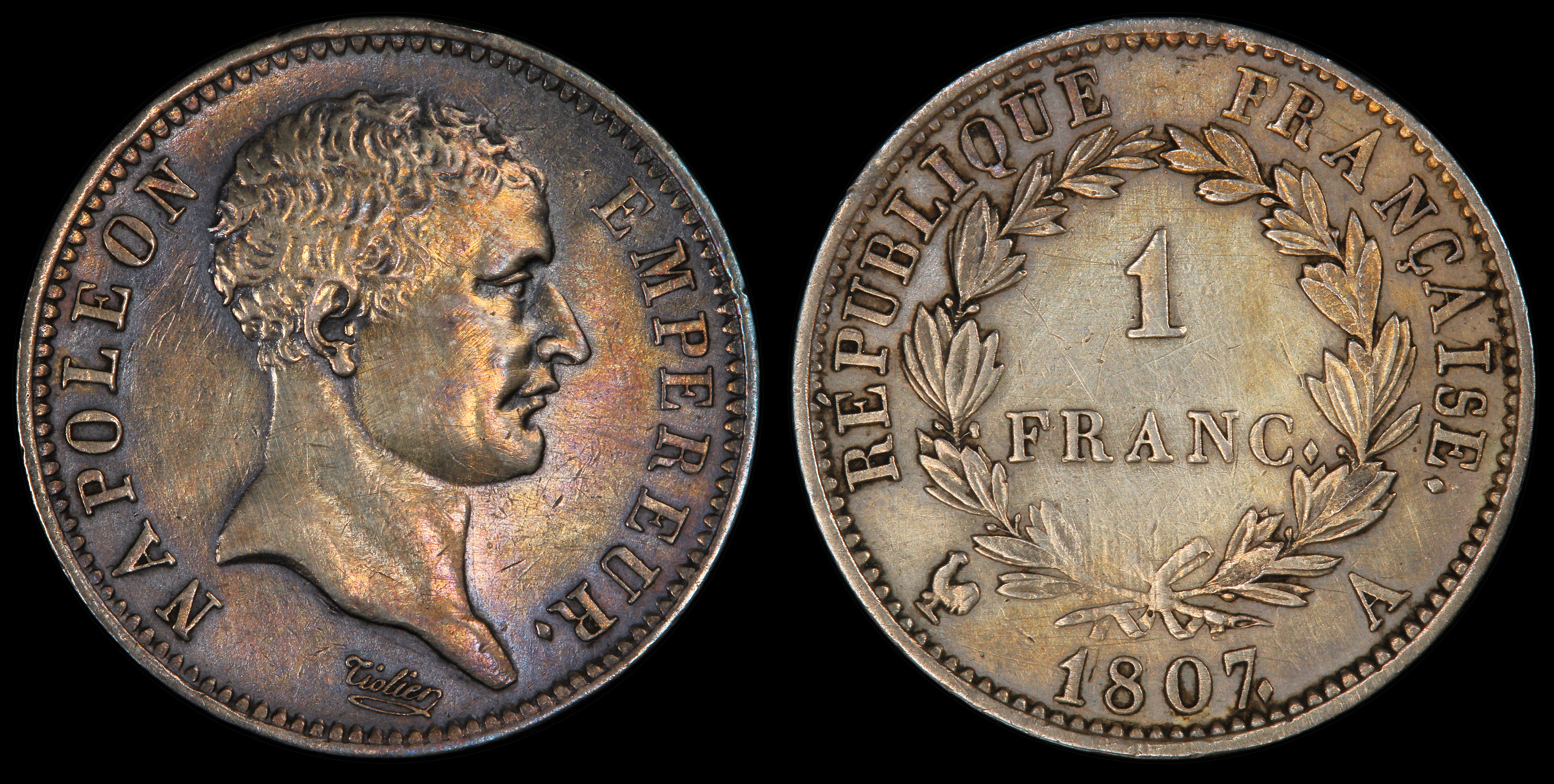 France 1807-A 1 Franc